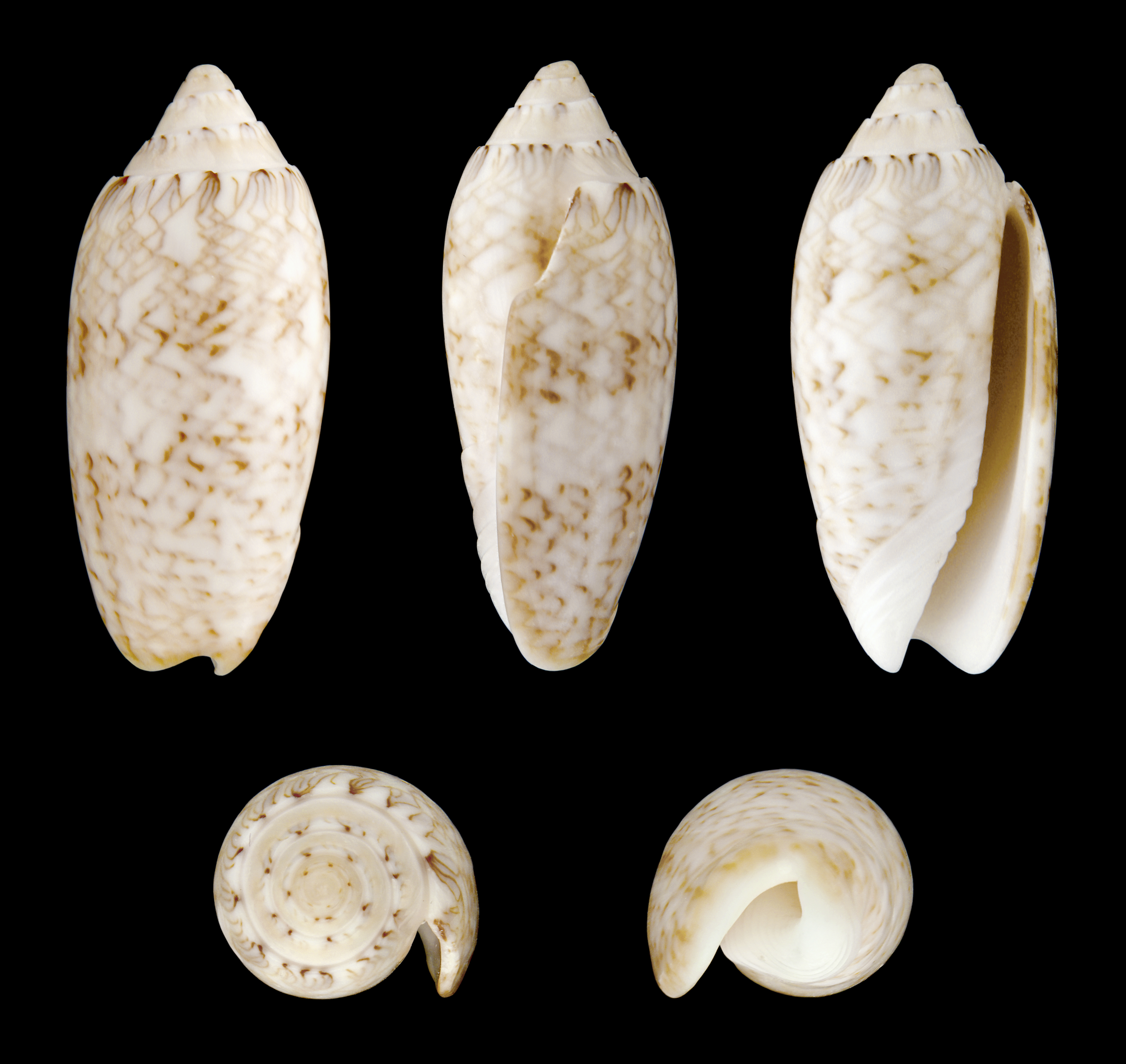 Lettered Olive; Length 3.8 cm; Originating from Florida, USA; Shell of own collection, therefore not geocoded. Dorsal, lateral (right side), ventral, back, and front view.